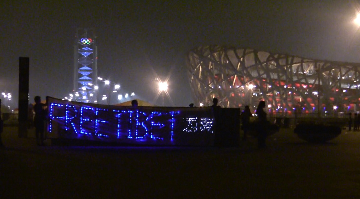 Beijing : Five pro-Tibet activists unfurled a banner spelling out "Free Tibet" in English and "Tibet" in Chinese in bright blue LED "throwie" lights in Beijing's Olympic Park tonight. The five were detained by security personnel after displaying the banner for about 20 seconds at 11:48 pm August 19th.